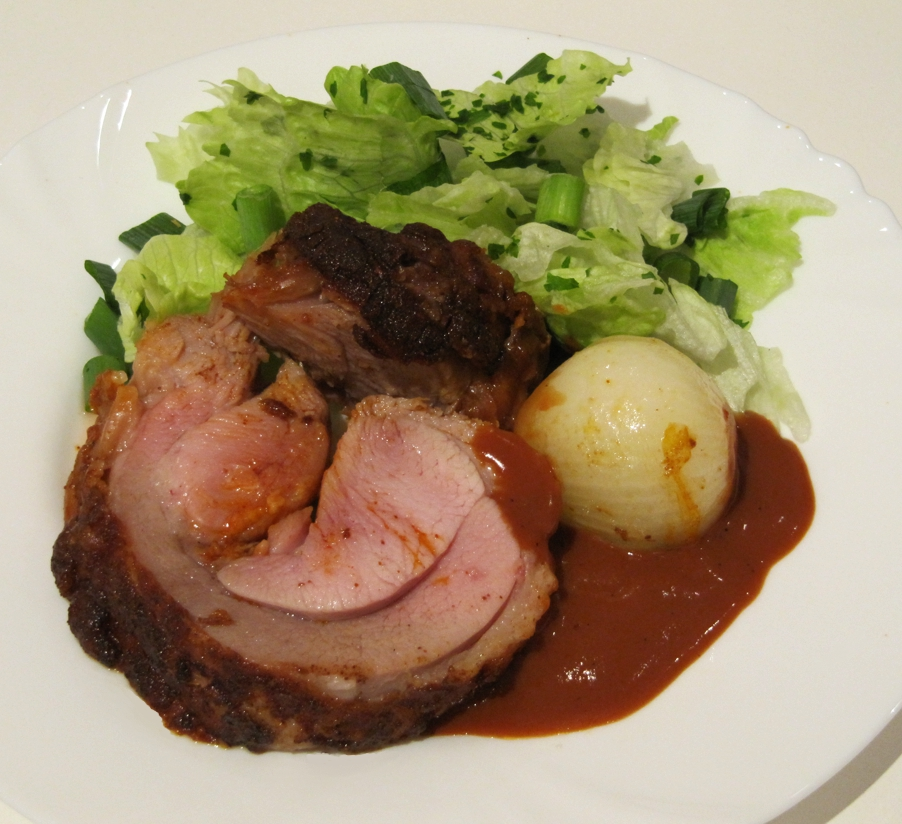 Roasted Turkey with green salad, brown sauce, and onion.